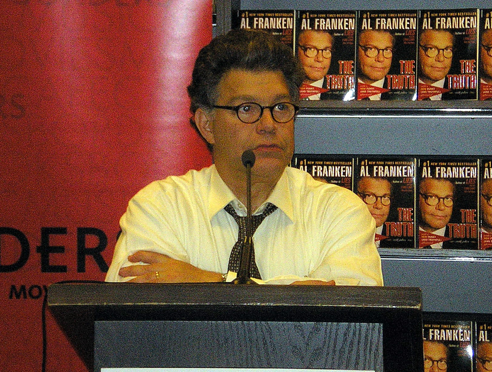 Al Franken by David Shankbone, New York City